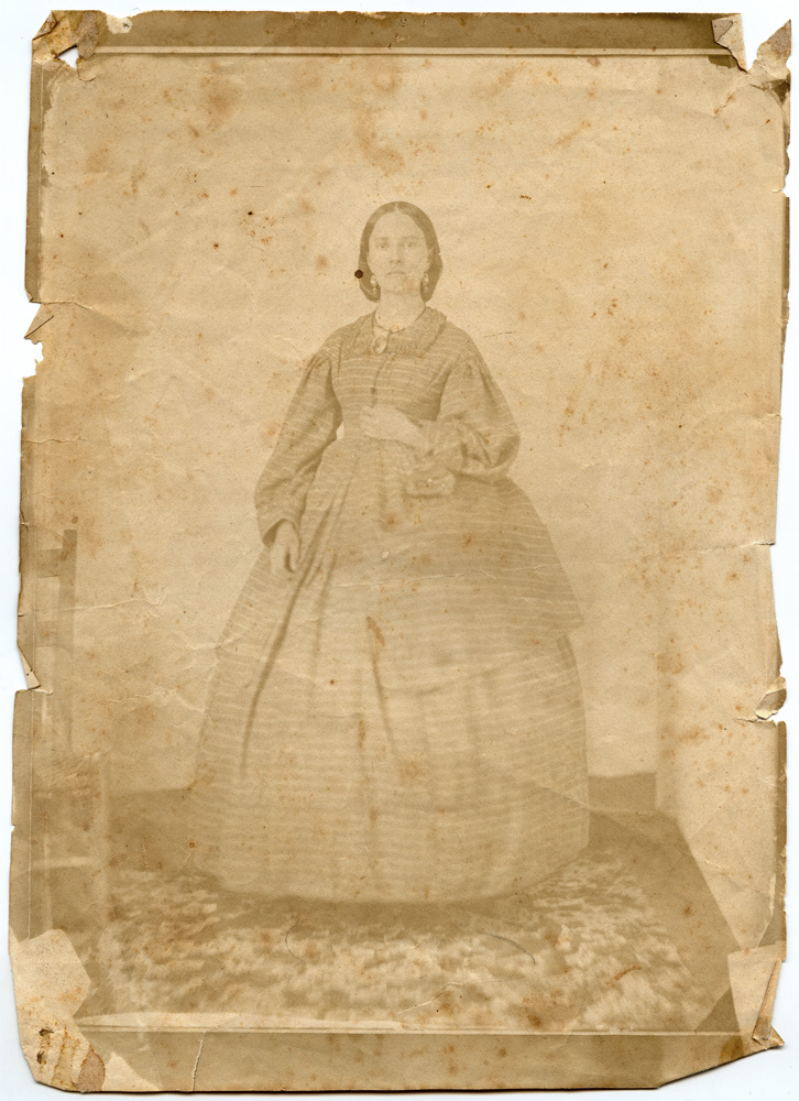 Title: [Sarah Horton Cockrell] Creator: Unknown Date: ca. 1840s Part Of Cockrell family papers, circa 1819-1930s Place: Dallas, Dallas County, Texas Description: Salted paper print portrait of Sarah Horton Cockrell, standing. Physical Description: 1 photographic print: salt paper; 24 x 17 cm File Name: a2002_2335_10_1_sarah_opt.jpg Rights: DeGolyer Library, Southern Methodist University Digital Collection: Archives of Women of the Southwest For more information, see